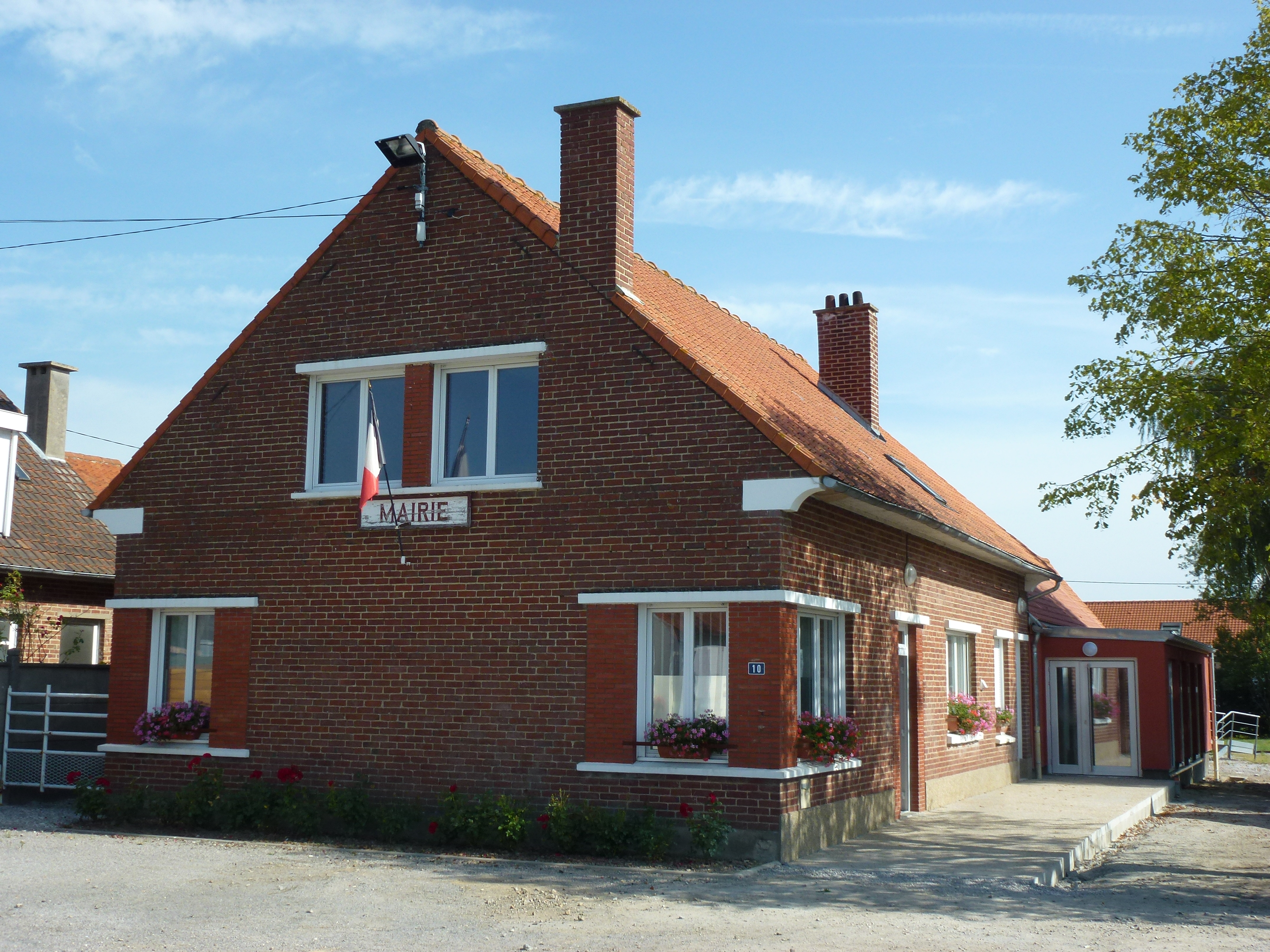 Ruminghem (Pas-de-Calais) mairie